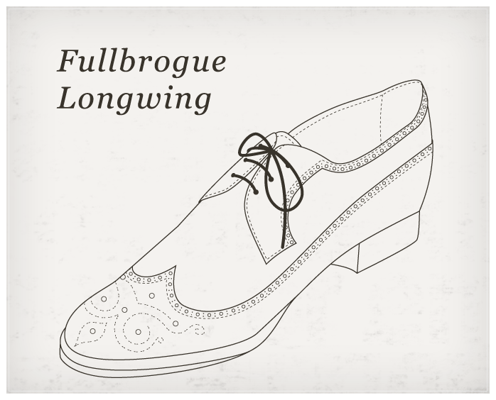 Picture/Illustration of a Fullbrogue Longwing (shoe)